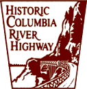 Sign used to mark the Historic Columbia River Highway in Oregon. It is not subject to copyright.